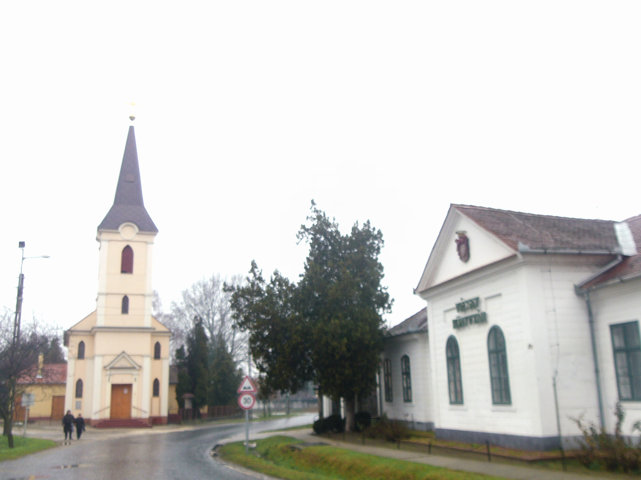 Solt, Hungary